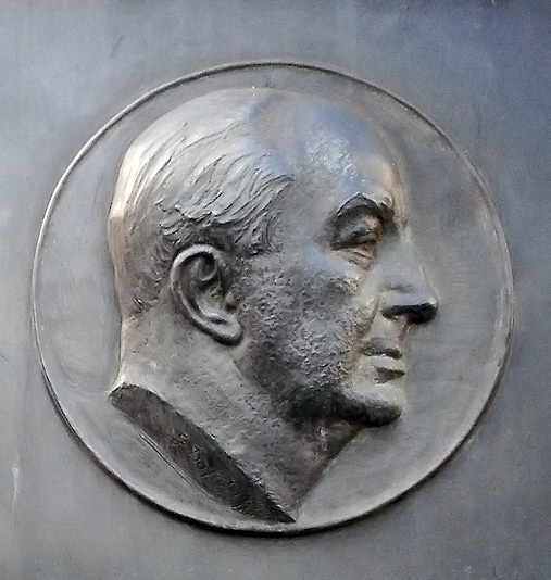 Detail of a plaque in Fleet Street commemorating Edgar Wallace who worked there as a journalist before finding fame as an author.